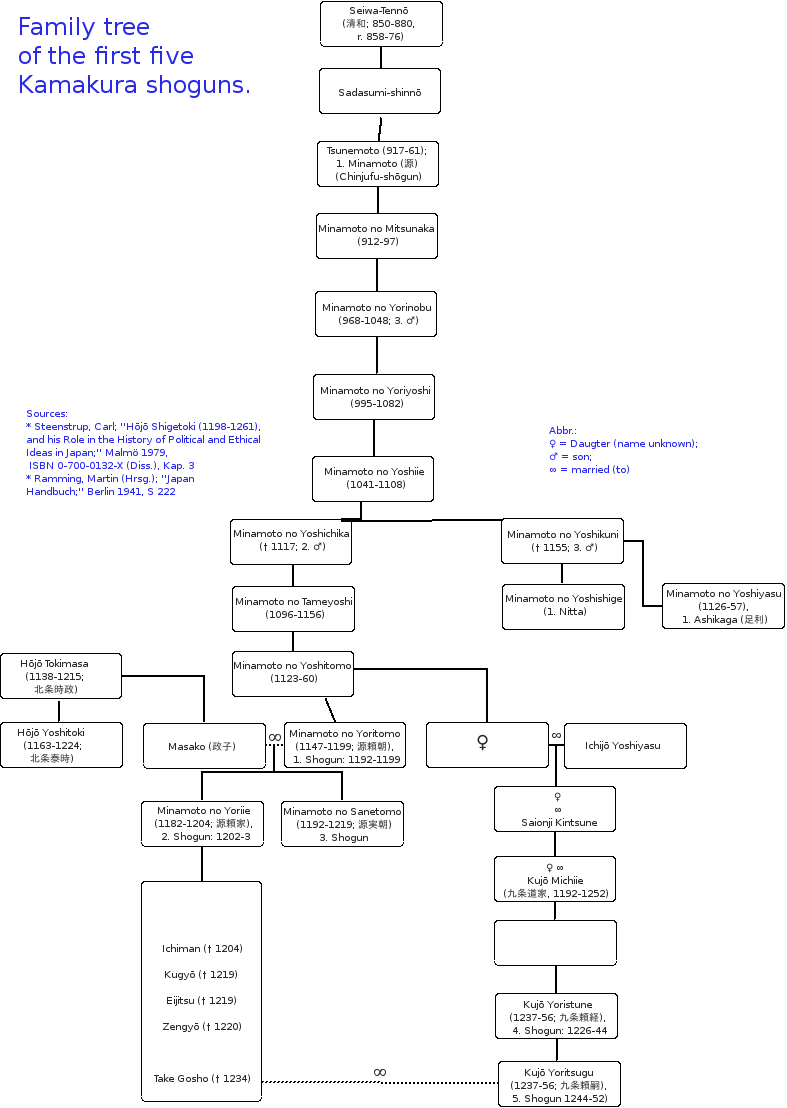 .png Version of a genealogical diagram showing the descent of the first five Shoguns of the Kamakura Bakufu (English)